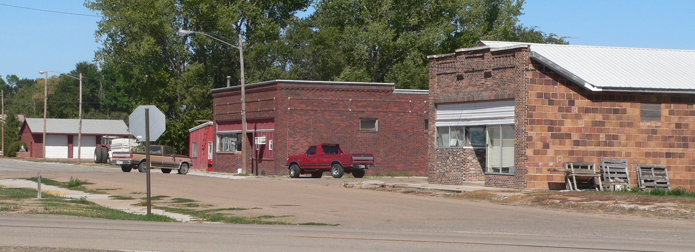 Downtown Primrose, Nebraska: east side of Commercial Street, looking northeast from about Nebraska Highway 52.